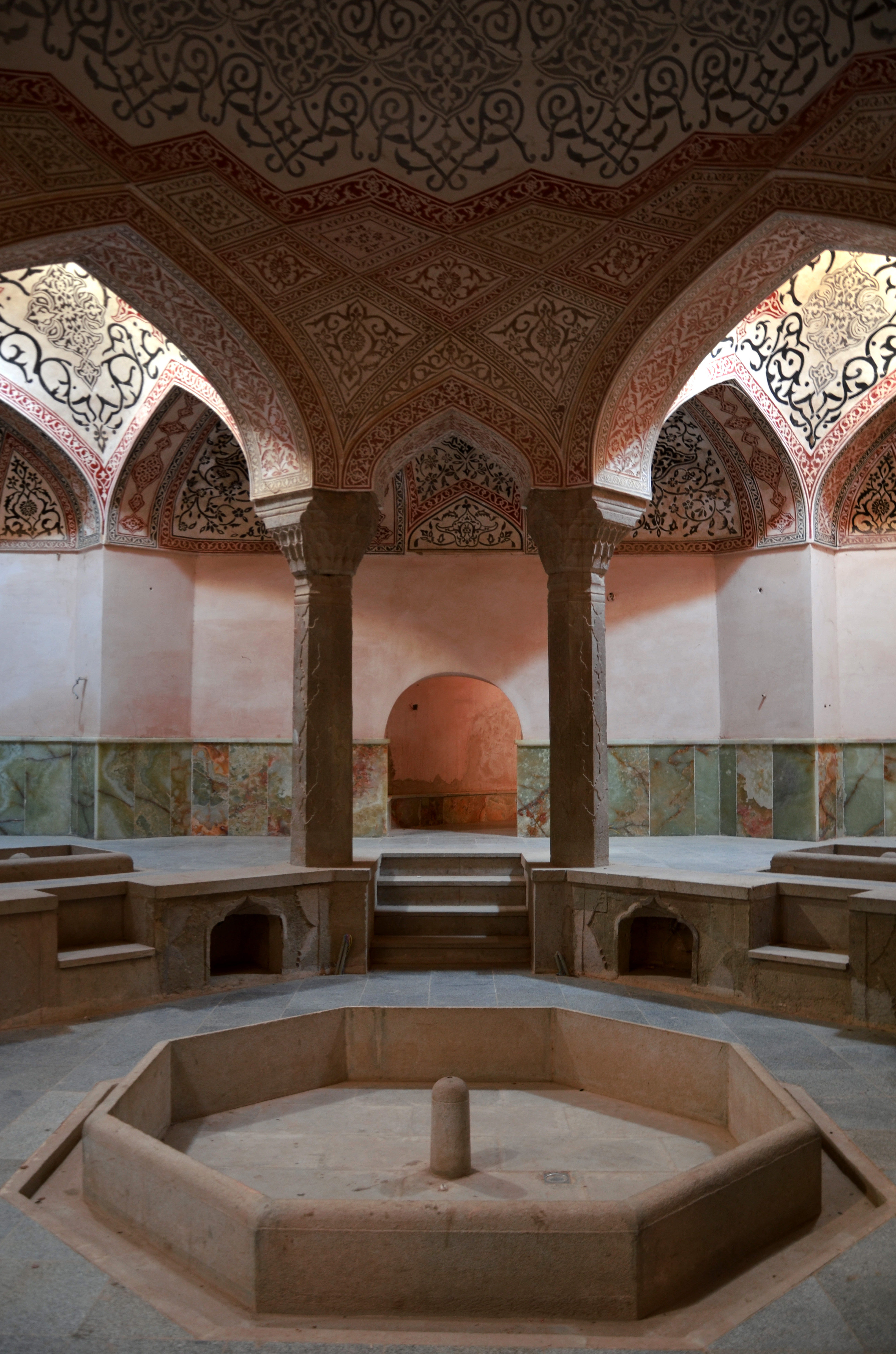 Aras - Jolfa - Kordasht old bath